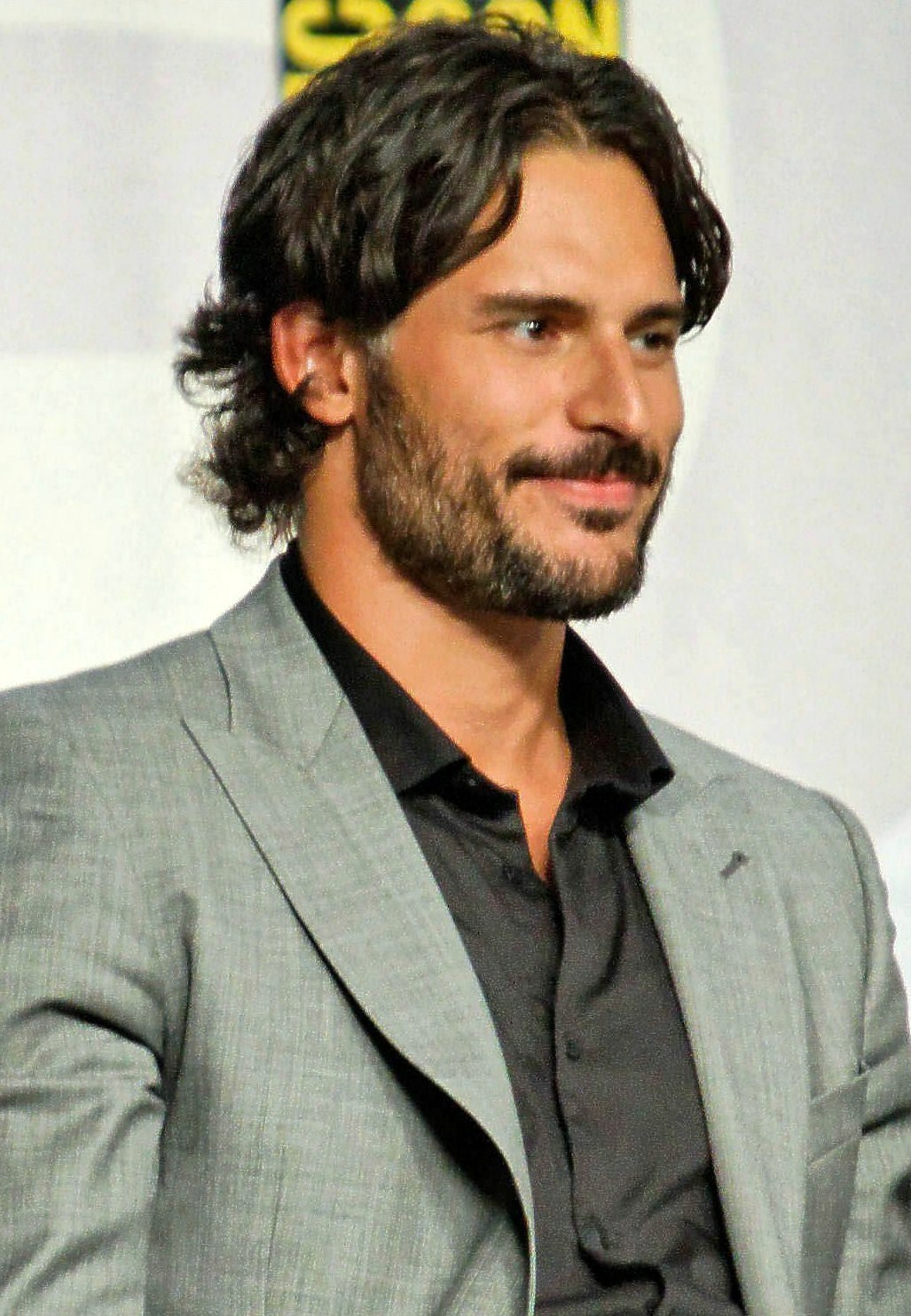 Joe Manganiello at 2010 Comic-Con International